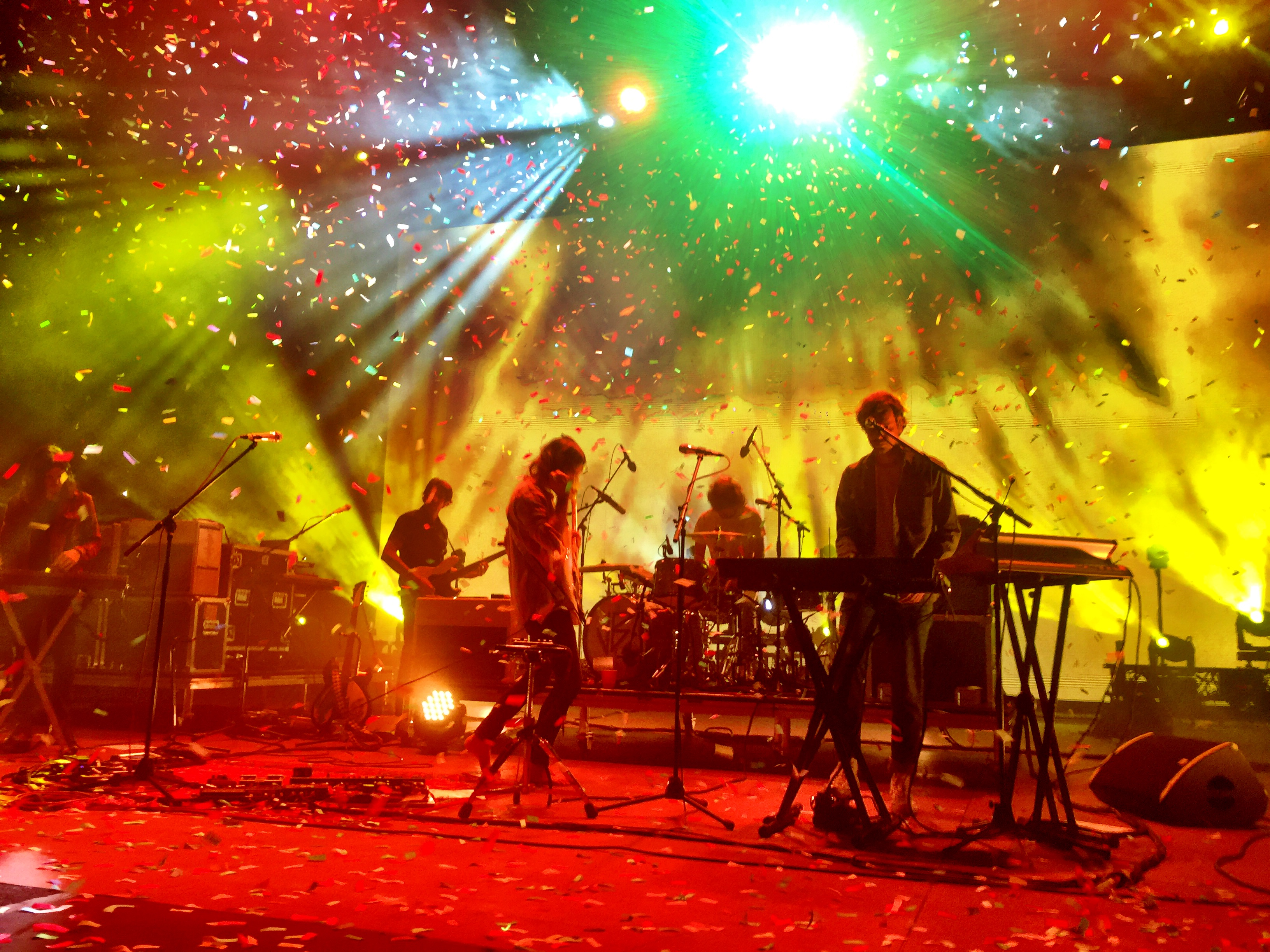 Tame Impala performing at Red Rocks Amphitheatre on August 31, 2016 in Denver County, Colorado.